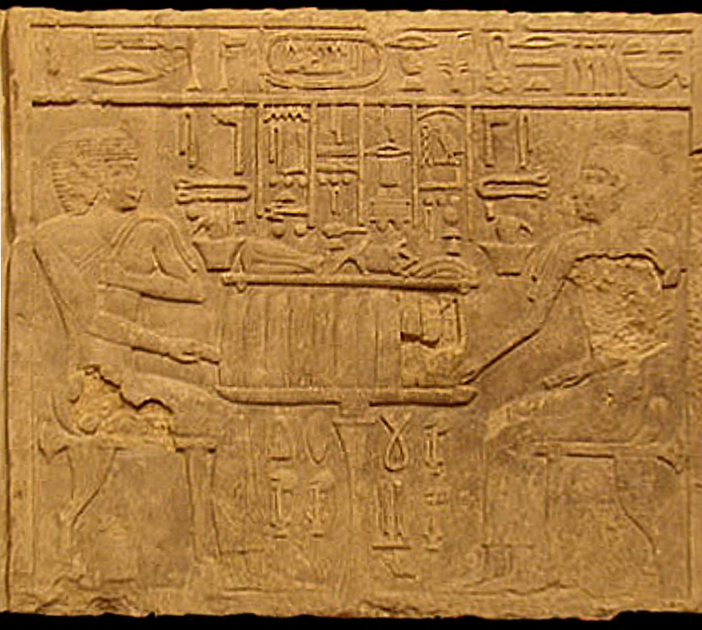 Relief from the tomb of Shery, Old Kingdom of Ancient Egypt, Ashmolean Museum, Oxford